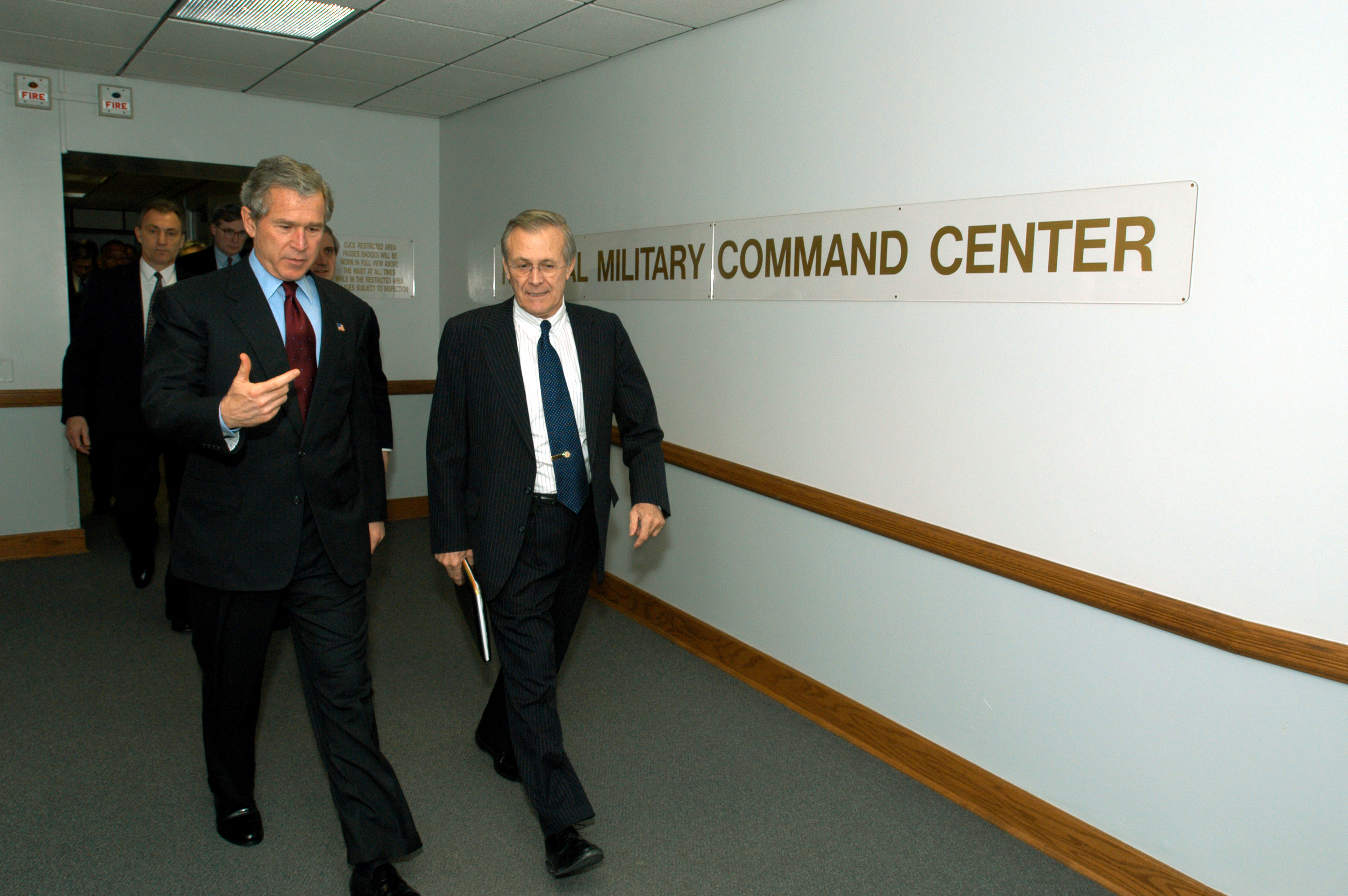 President George W. Bush and Secretary of Defense Donald H. Rumsfeld walk from the Pentagon's National Military Command Center where they received operational briefings. The President visited the Pentagon to meet with senior defense leadership and announce his $74.7 billion wartime supplemental budget request. Once appropriated by Congress, the money will pay for the direct costs of Operation Iraqi freedom and the global war against terror. DoD photo by R.D. Ward.